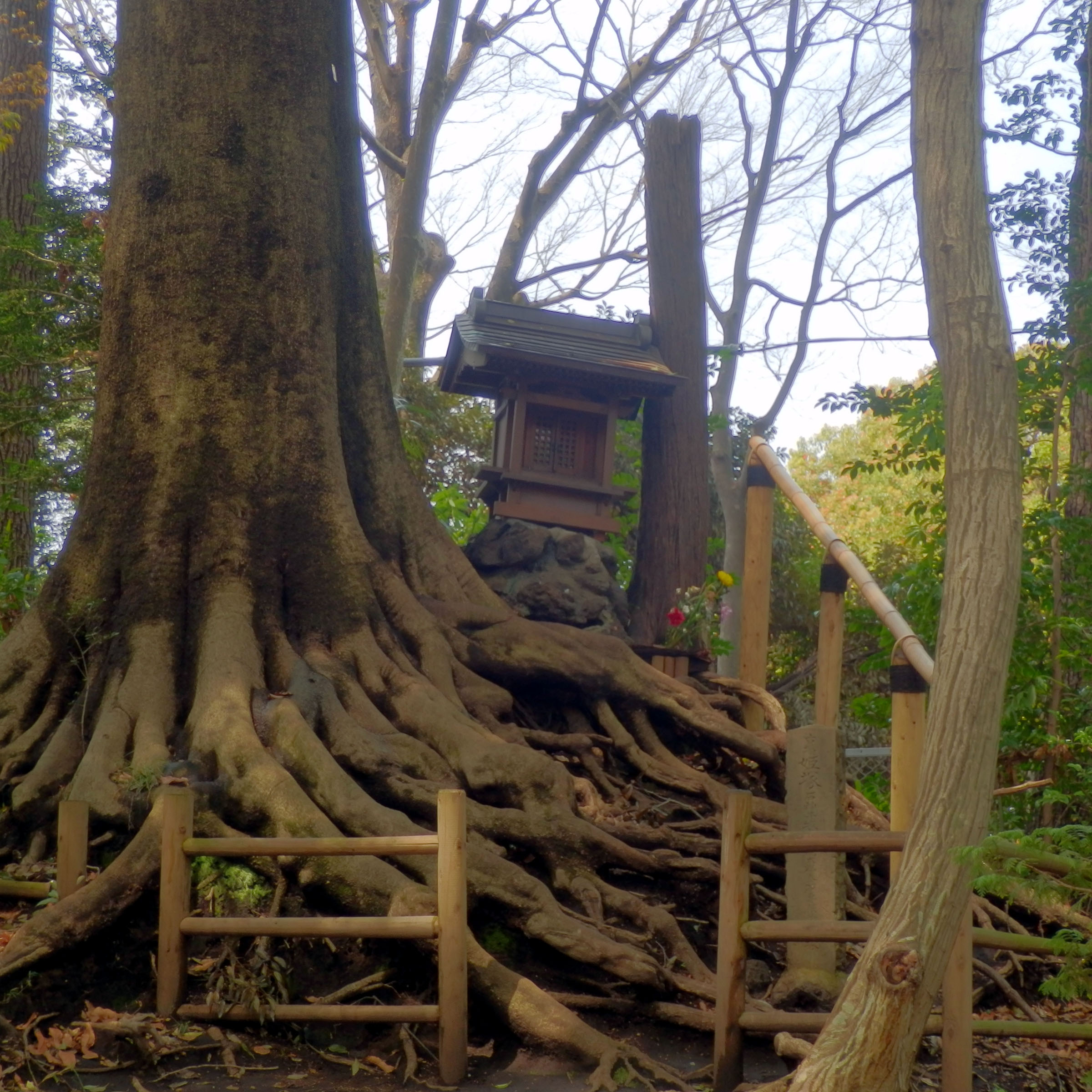 Small shrine of Teruhime (A daughter of Toshima Yasutsune in 15th century of Japan)